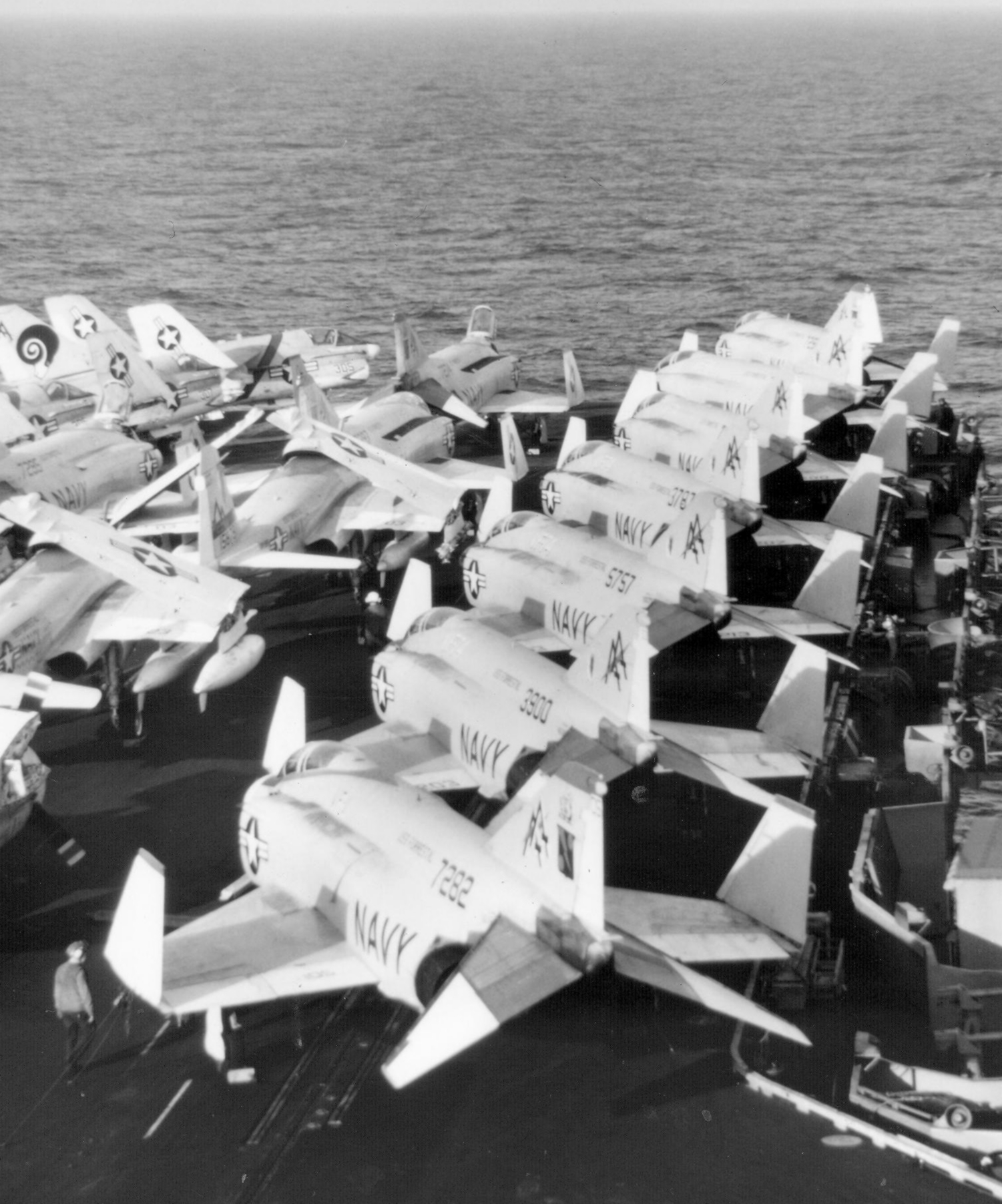 View of the forward flight deck of the U.S. Navy aircraft carrier USS Forrestal (CVA-59). The carrier was deployed to the Mediterranean Sea from 11 March to 11 September 1974. Visible are various aircraft aof Attack Carrier Air Wing 17 (CVW-17), in the right foreground McDonnell Douglas F-4J Phantom II fighters from Fighter Squadron VF-11 Red Rippers and VF-74 Be-Devilers.